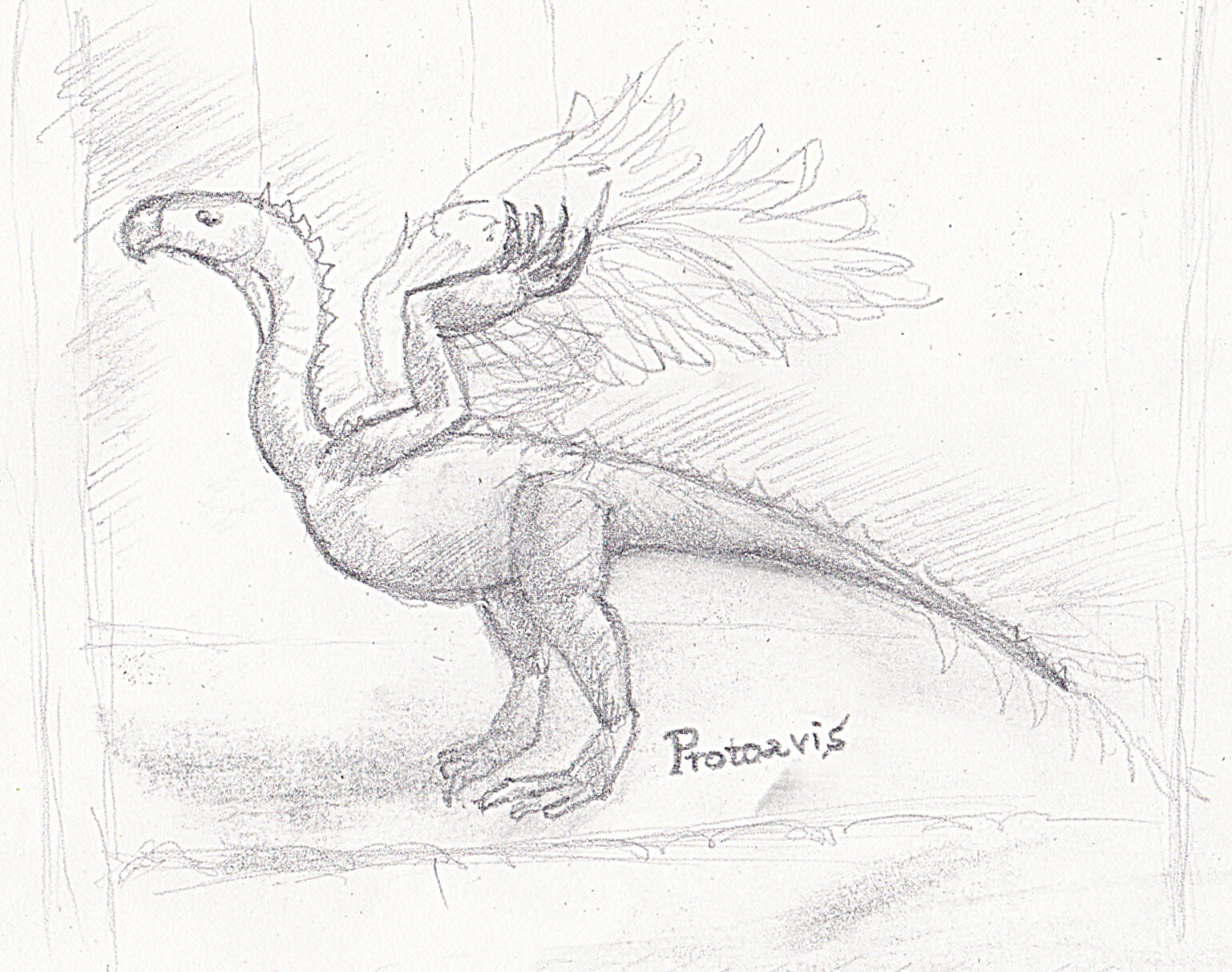 Interpretative drawing of Protoavis after Chatterjee's initial configuration of the skeletal elements